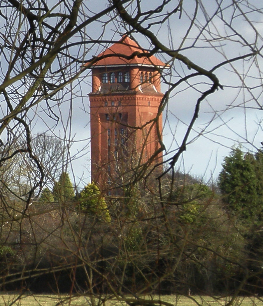 Our favourite winter view of Bedworth water tower from behind the willow trees. If you look carefully you can see the donkey! Grade II Listed Water Tower - built 1898 to provide the people of Bedworth with clean drinking water.